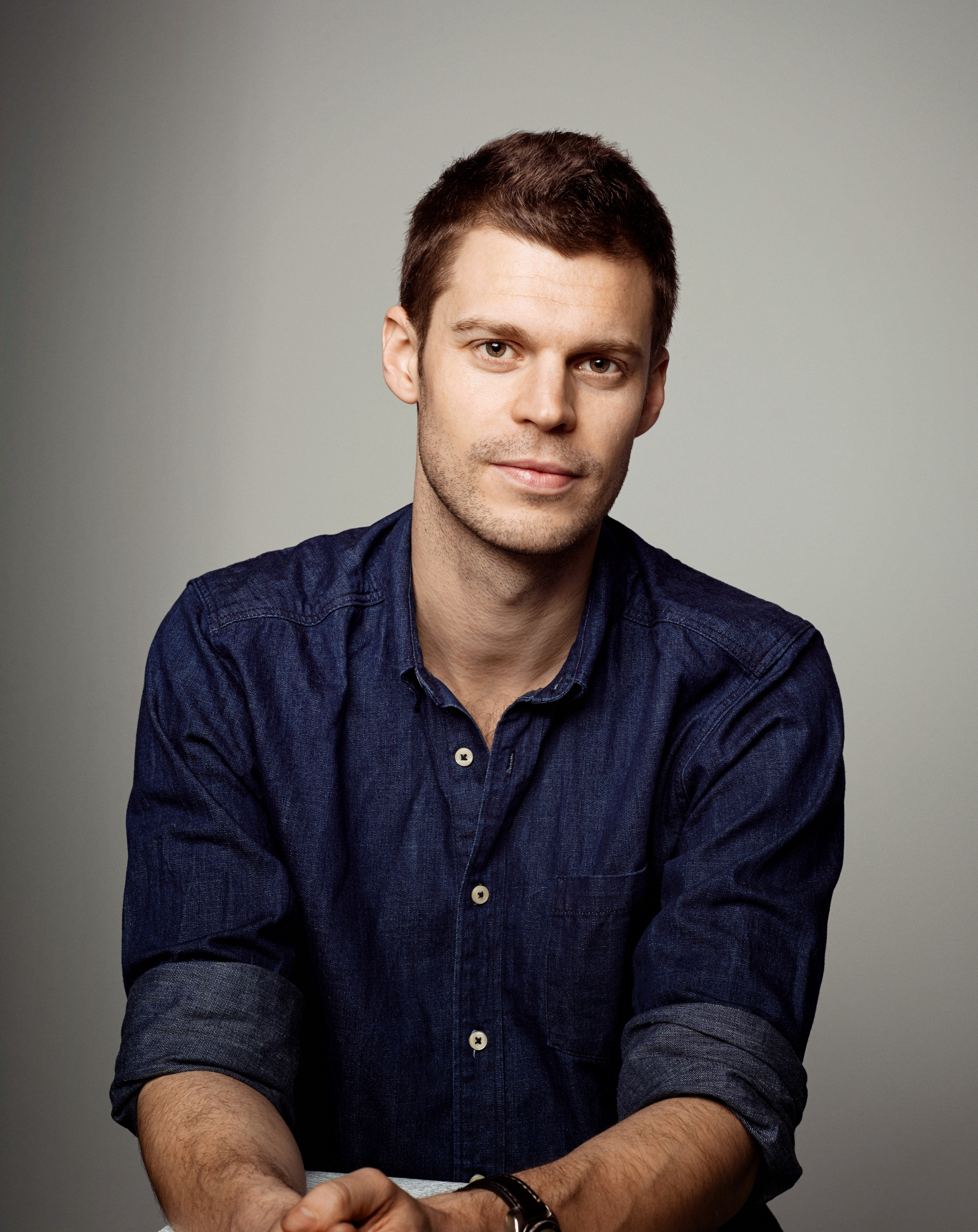 Red Party leader Bjørnar Moxnes in 2013.